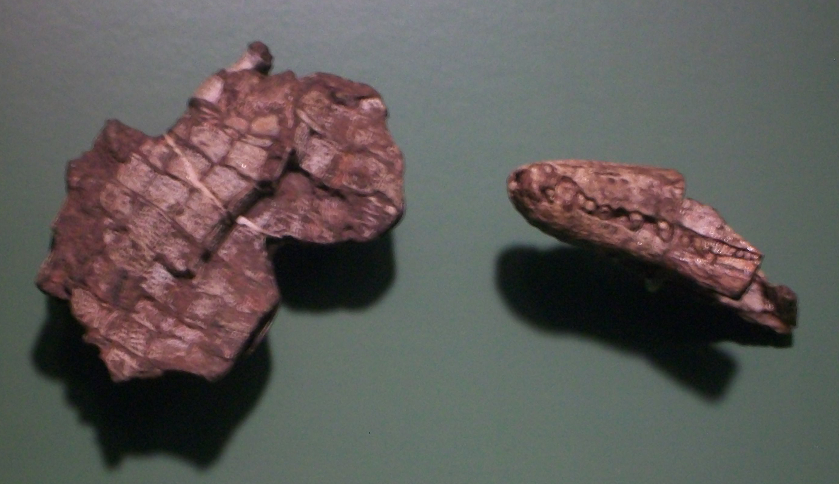 Osteoderms and snout of Platyognathus hsui (specimen CUP 2083) in the Field Museum of Natural History.